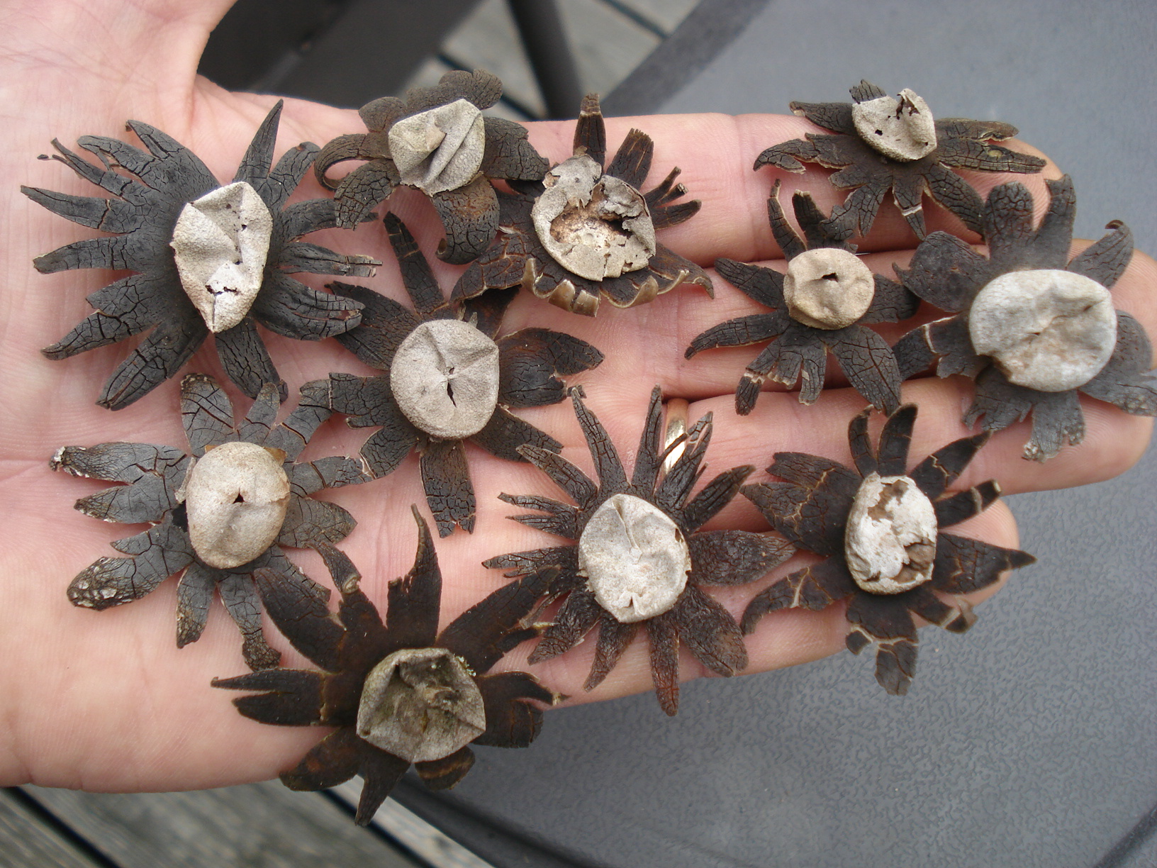 Fruit bodies of the false earthstar fungus Astraeus hygrometricus. Specimens collected in Luzerne Co., Pennsylvania, USA. "Notes: On poor soil in clearing with small birch trees."